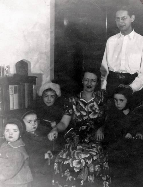 This is an old family photo of my Great Aunt Marion and Great Uncle Robert Block. They are sitting with their nieces and nephews.